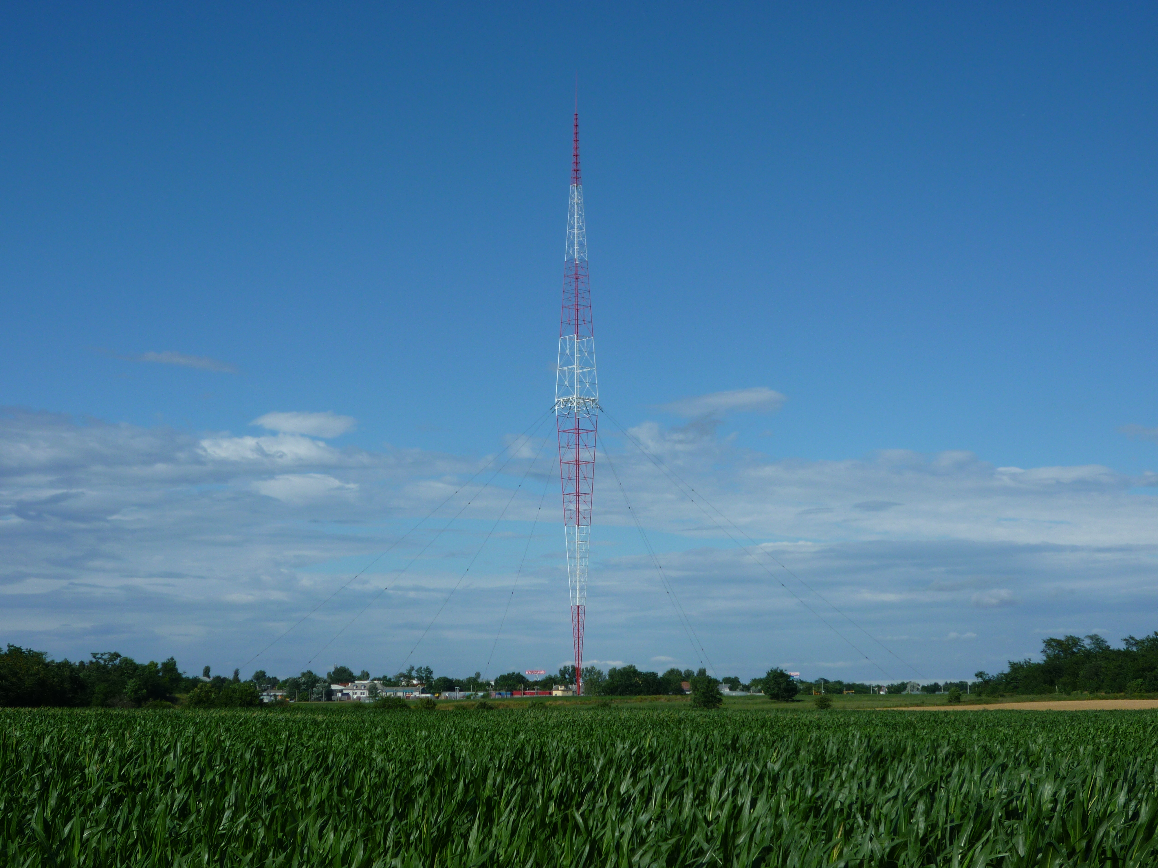 Lakihegy Tower